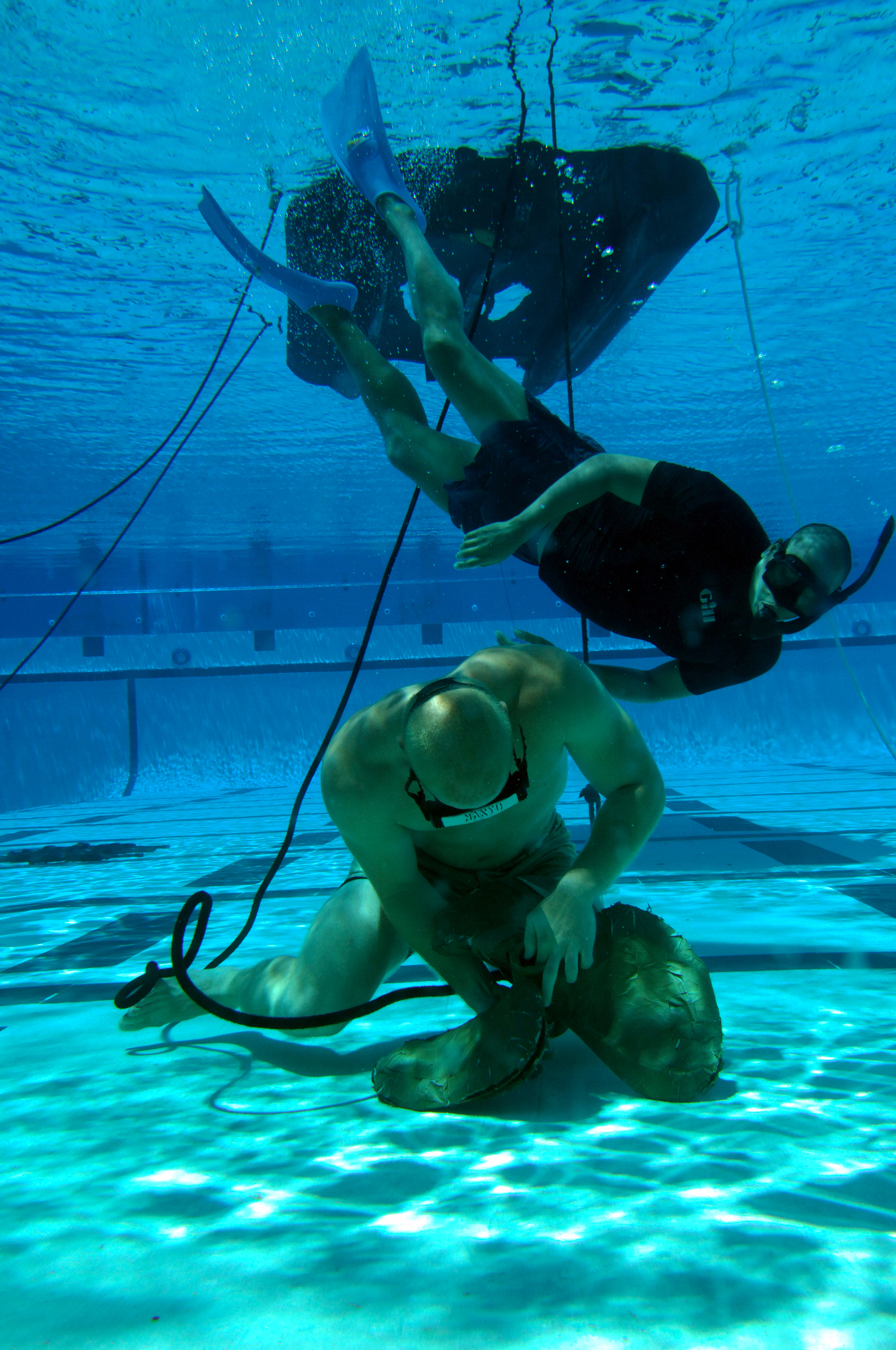 SAN DIEGO (Aug. 5, 2008) A Basic Crewman Training (BCT) student demonstrates underwater knot tying skills during water proficiency training at Naval Amphibious Base Coronado. BCT is the first phase of the Special Warfare Combatant-craft Crewman (SWCC) training pipeline. SWCCs operate and maintain the Navy's inventory of state-of-the-art, high-performance boats used to support SEALs in special operations missions worldwide. (U.S. Navy photo by Mass Communication Specialist 2nd Class Christopher Menzie/Released)